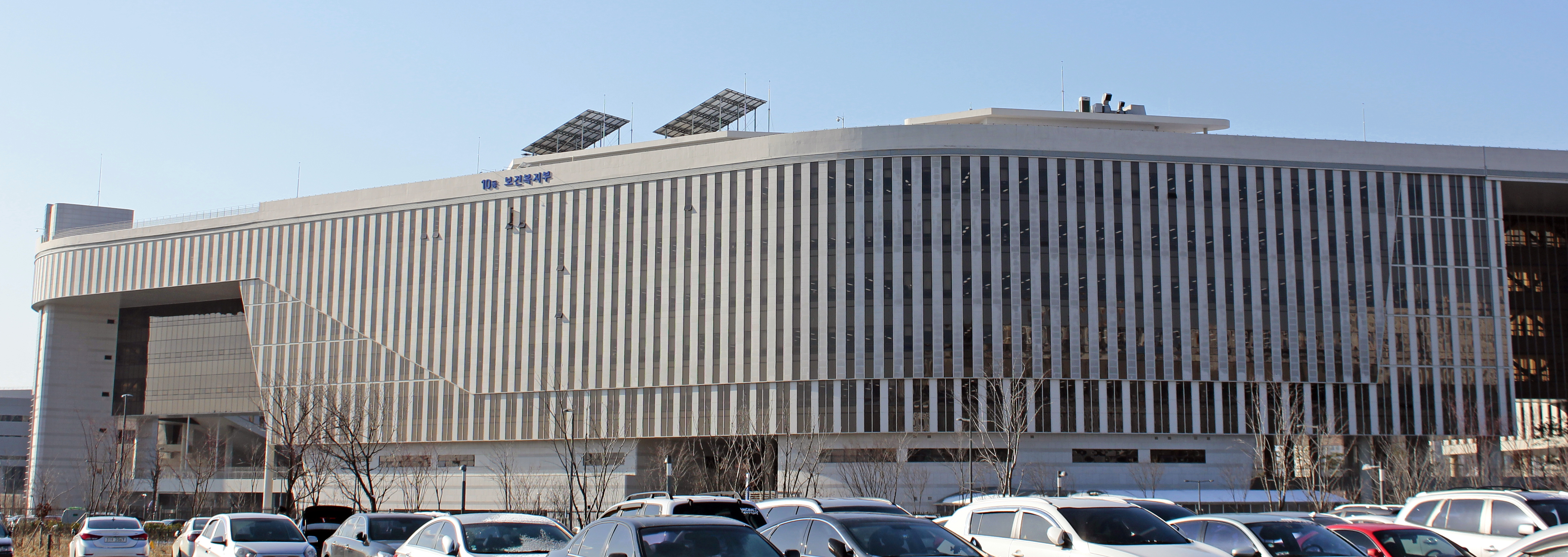 Ministry of Health and Welfare @Government Complex Sejong #10